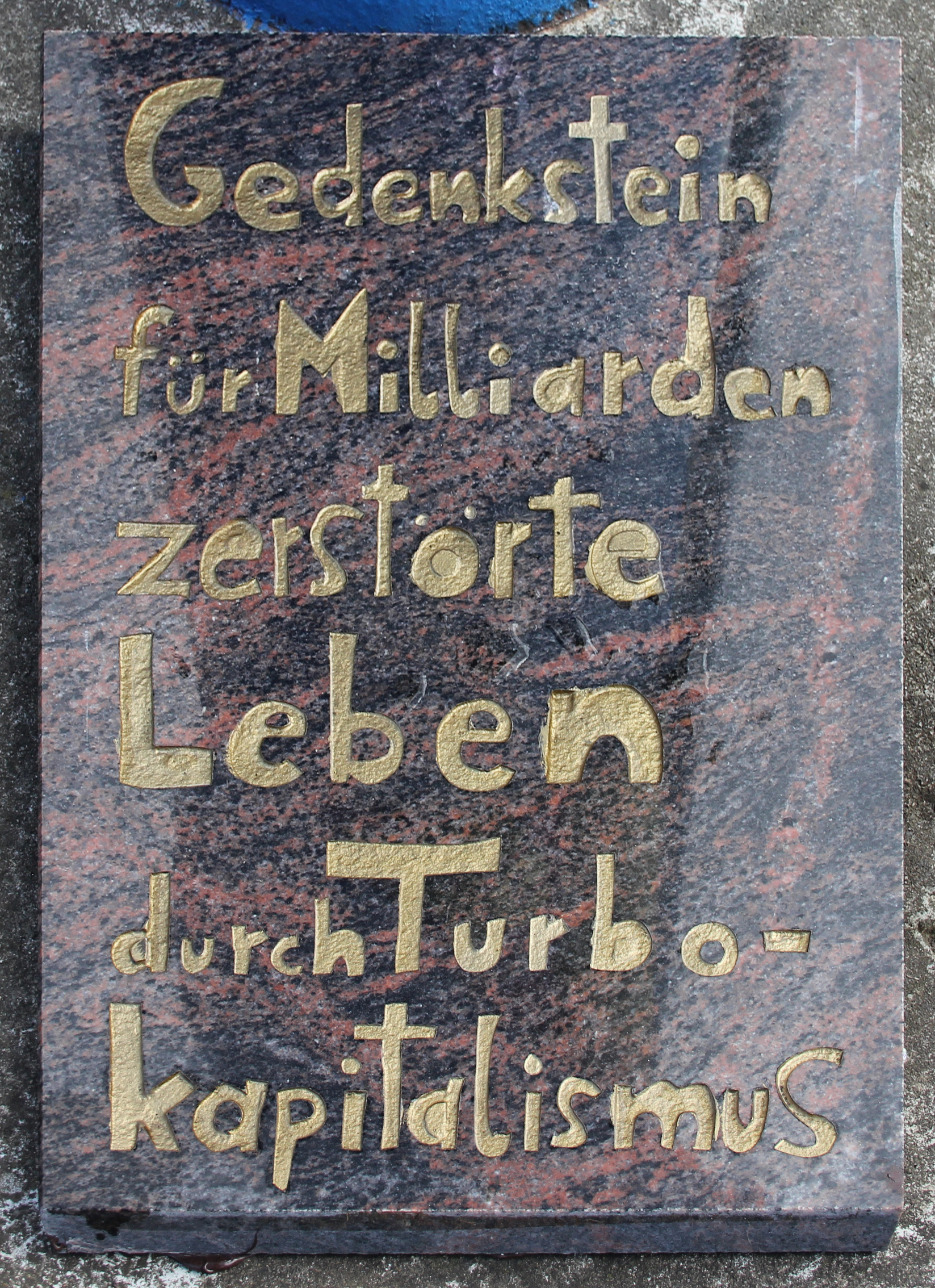 Memorial plaque, Turbo-Kapitalismus, Warschauer Straße 48, Berlin-Friedrichshain, Germany